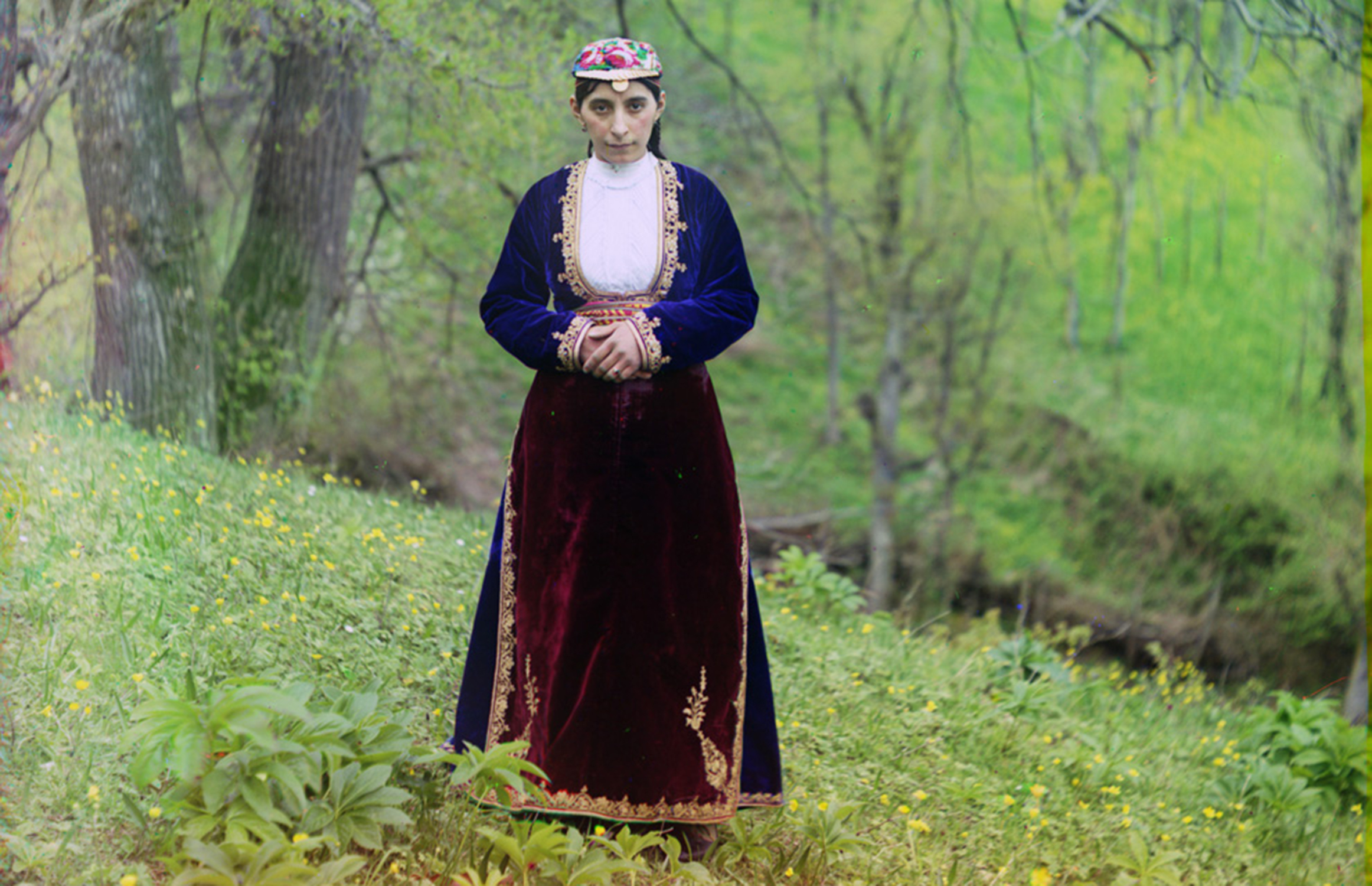 An Armenian woman in national costume poses for Prokudin-Gorskii on a hillside near Artvin (in present day Turkey), circa 1910 (digital color composite from digital file from glass neg.).